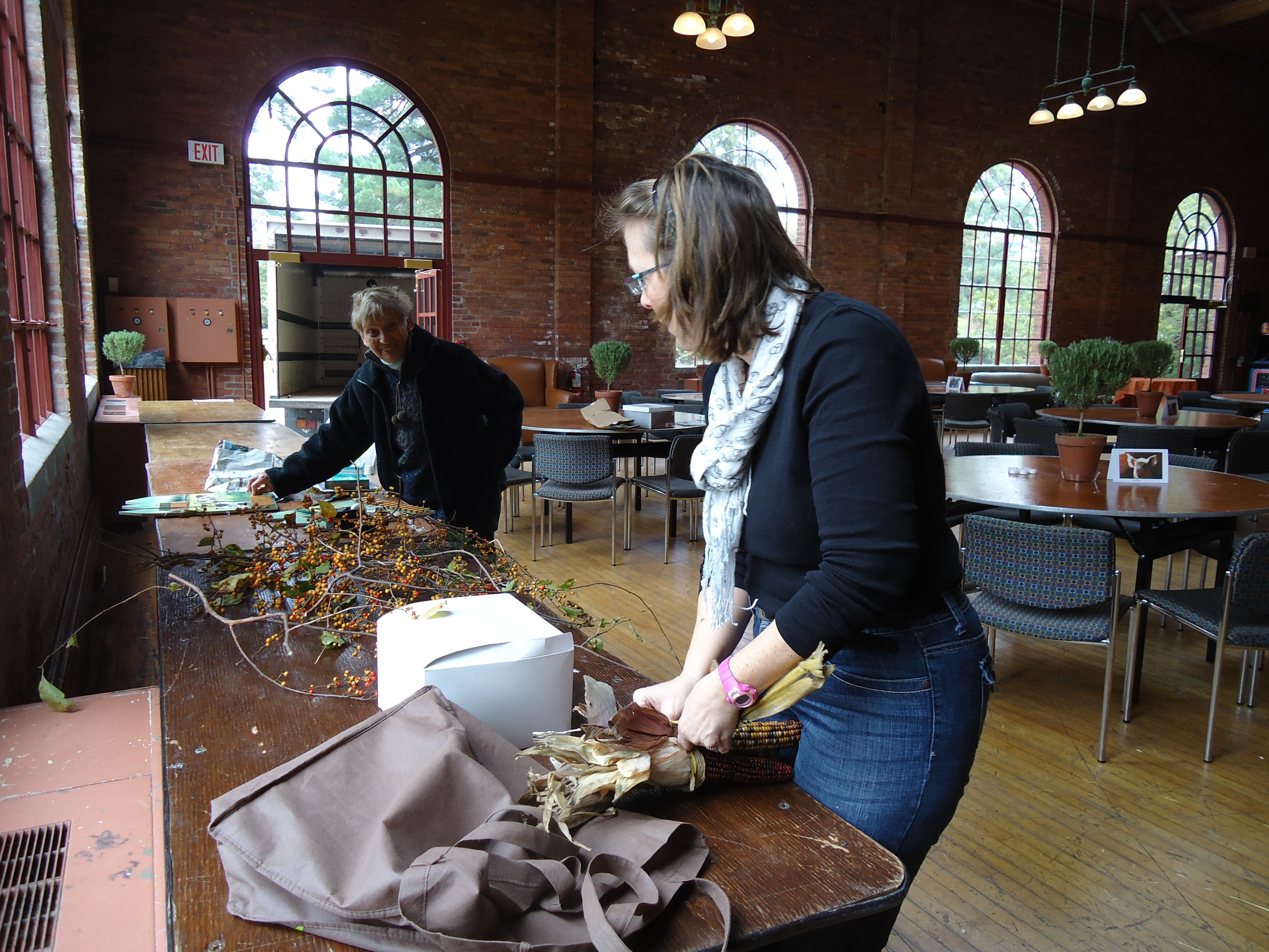 Setup for an event in the Aula, part of Ely Hall on the campus of Vassar College.